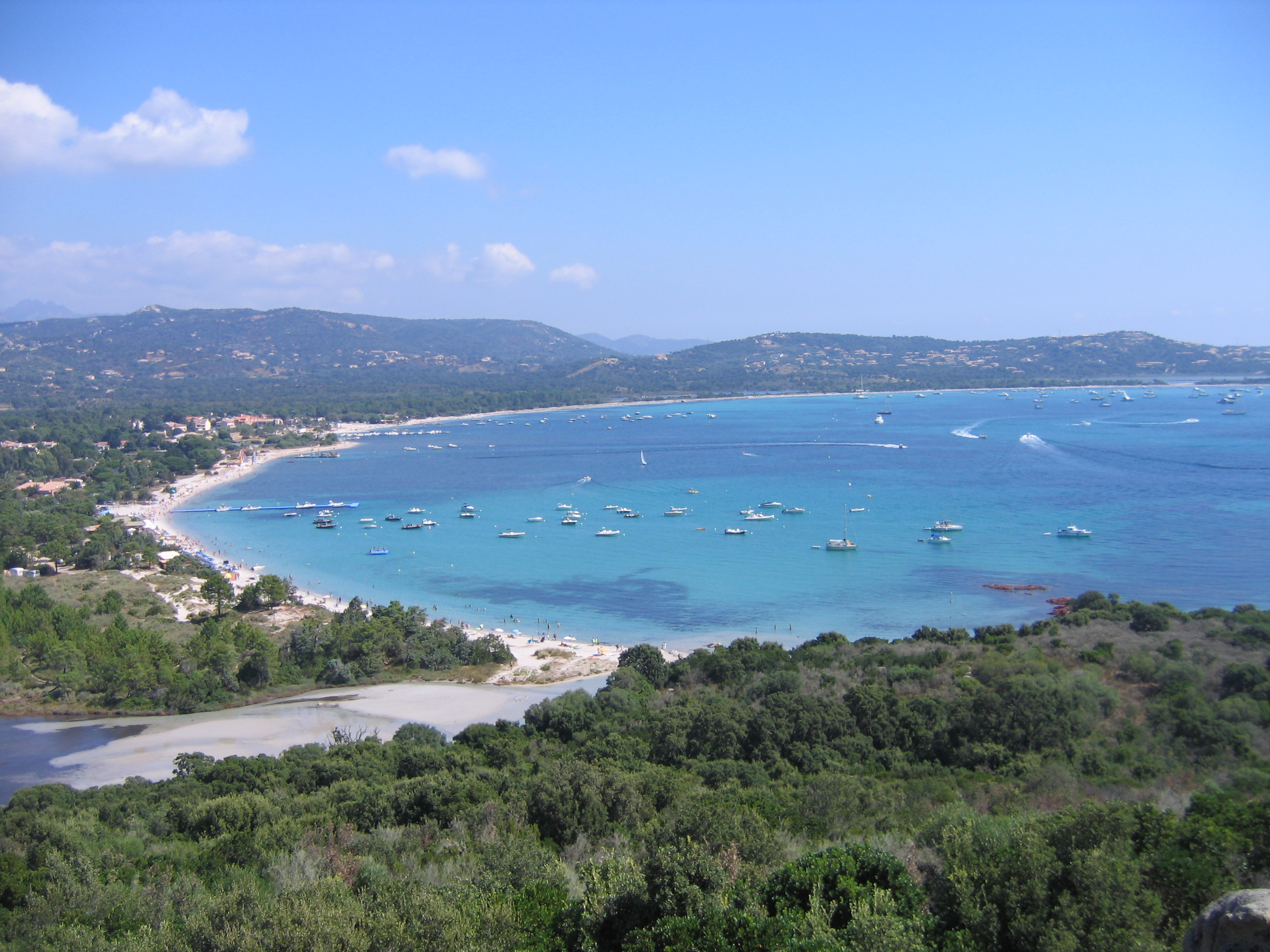 Saint Cyprien beach, Corsica, France